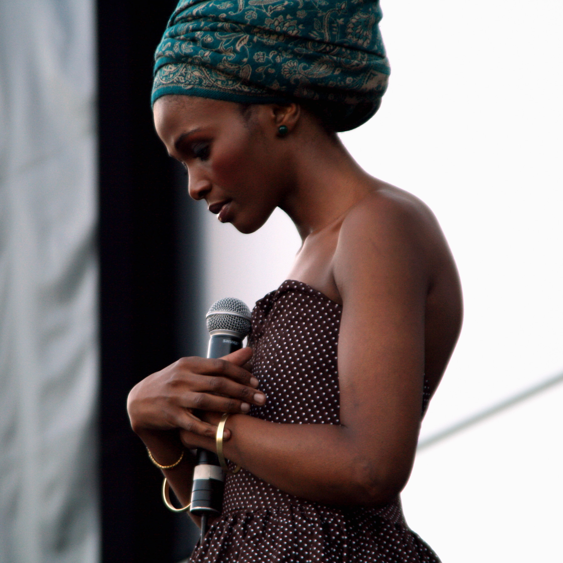 South African singer Simphiwe Dana at the Rathausplatz in Vienna (Jazz-Fest Wien)